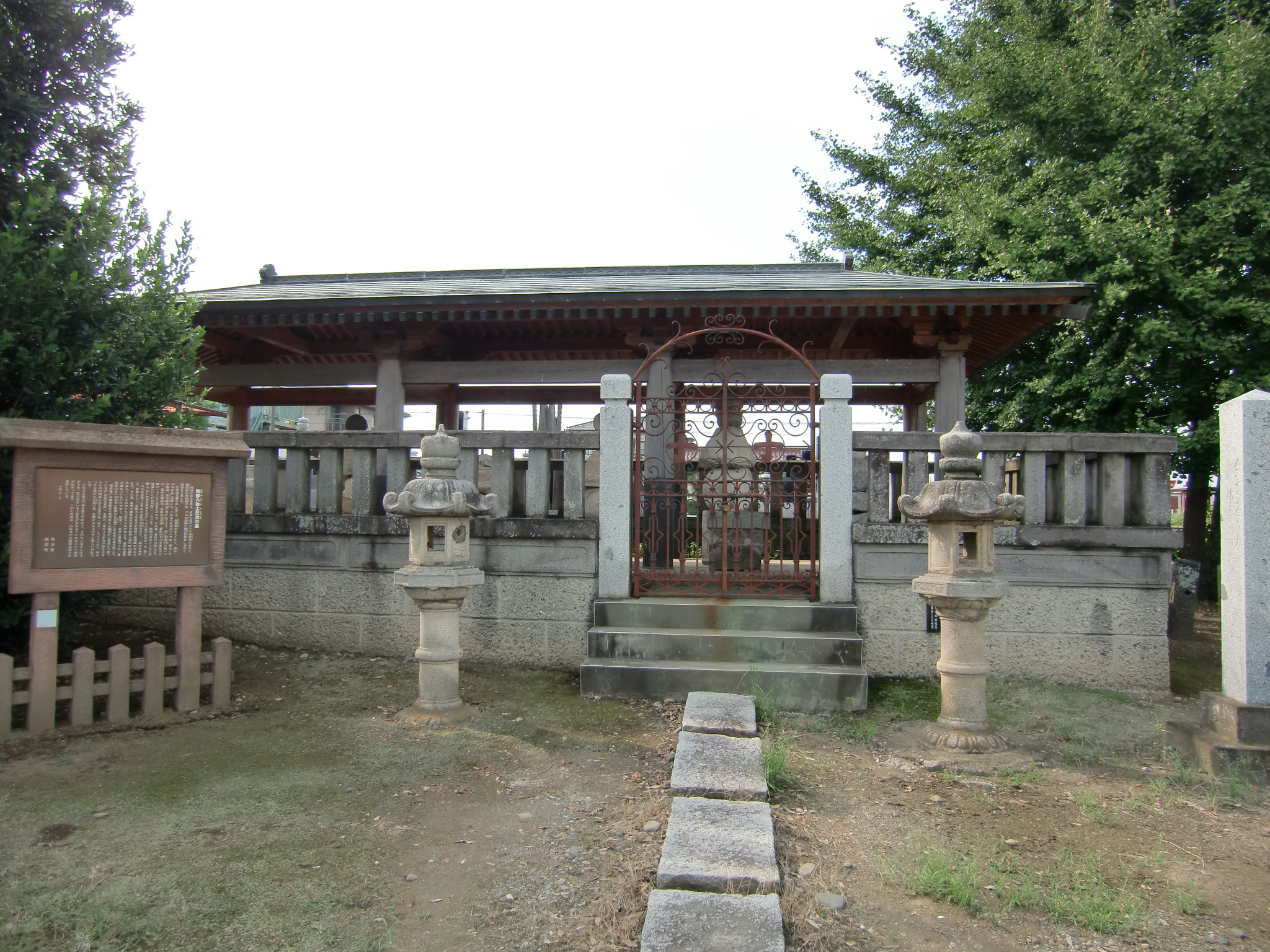 Tomb of Okabe Rokuyata Tadazumi in Fukaya-shi, Saitama.